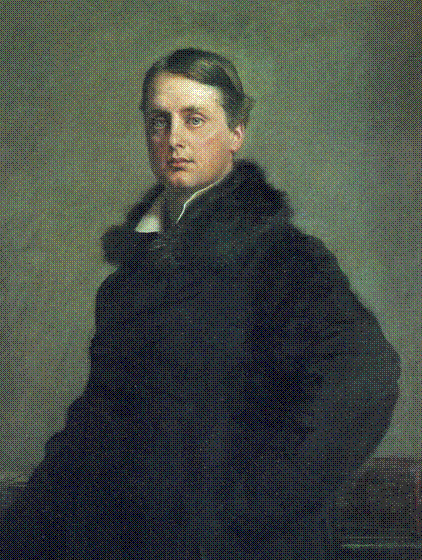 Portrait of Archibald_Primrose,_5th_Earl_of_Rosebery